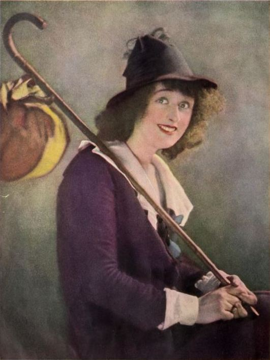 Colorized photograph of actress Elisabeth Risdon on page 20 of the September 1919 Shadowland.